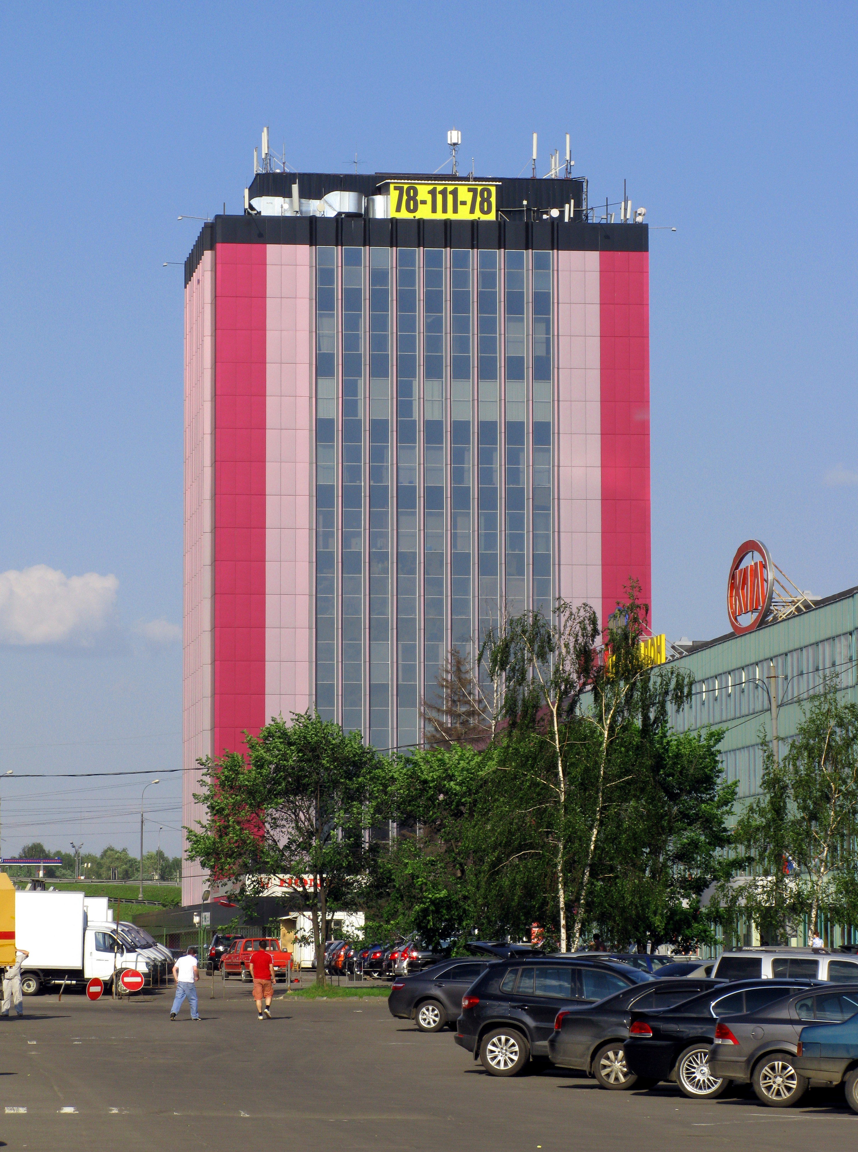 Business center «East Gate» (Moscow, Schelkovskoe shosse, 100)